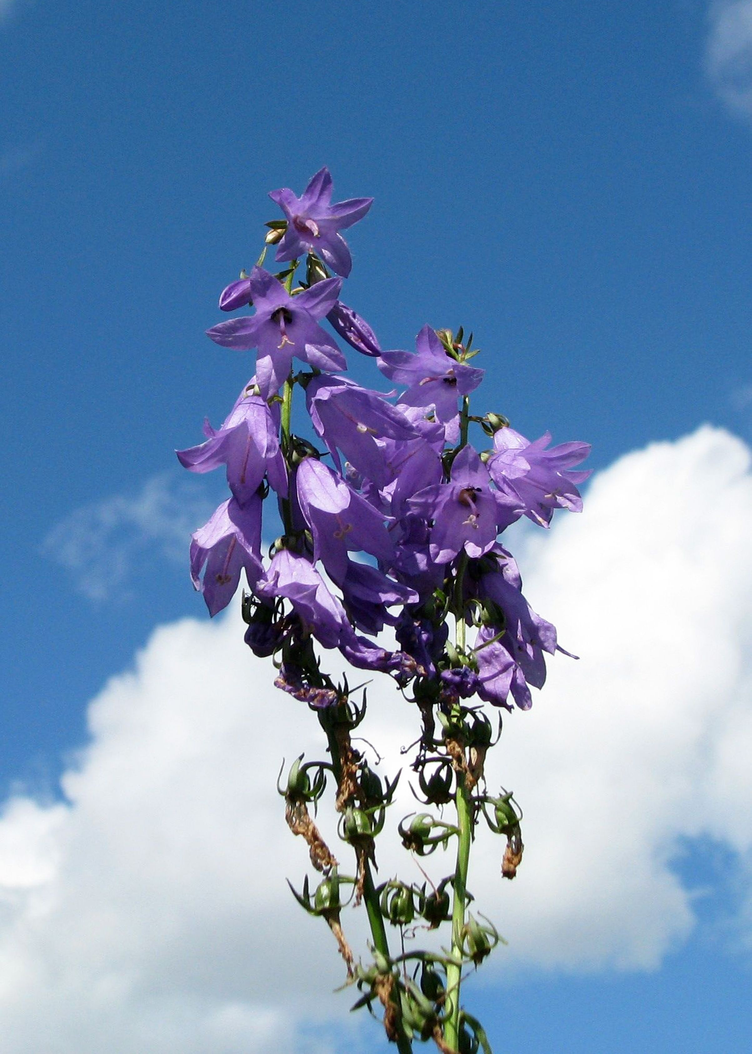 The Lobelia Siphilitica is one species of plant that uses a gynodioecious breeding system.